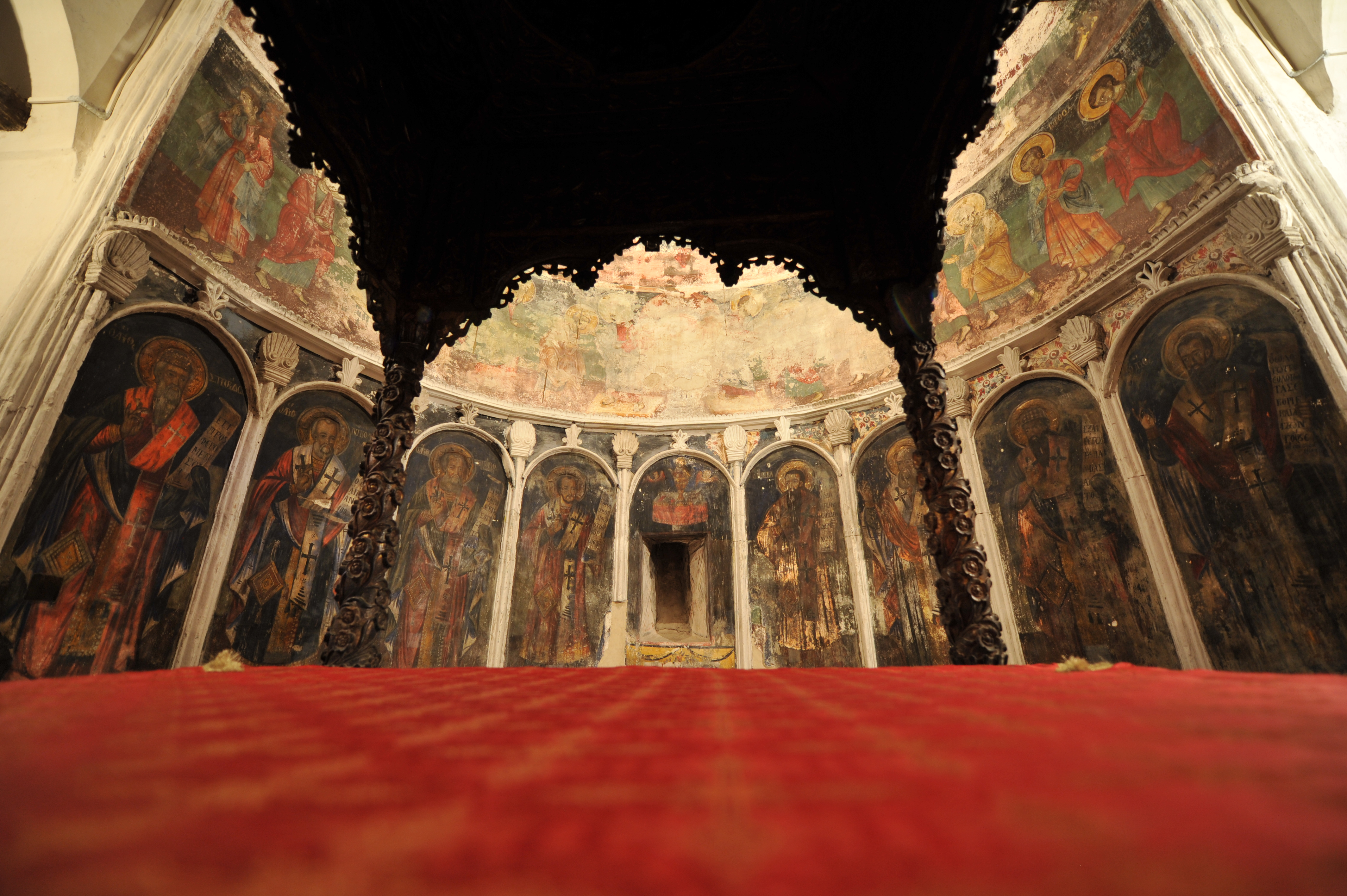 St. Theodore's Church, BeratShqip: Kisha e Shën Todrit L